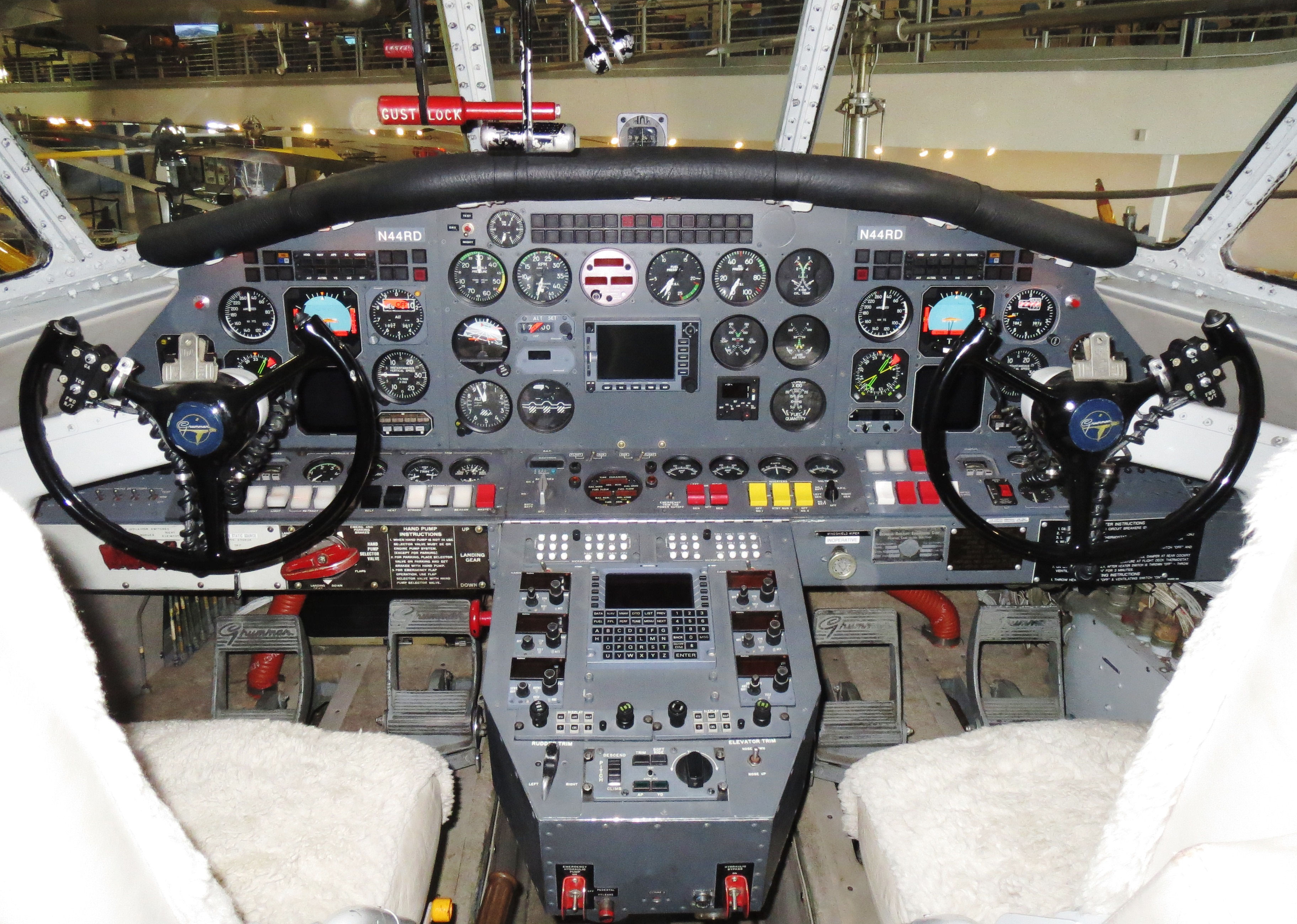 Cockpit of Grumman Albatross N44RD, owned by Reid Dennis, that flew around the world in 1997.